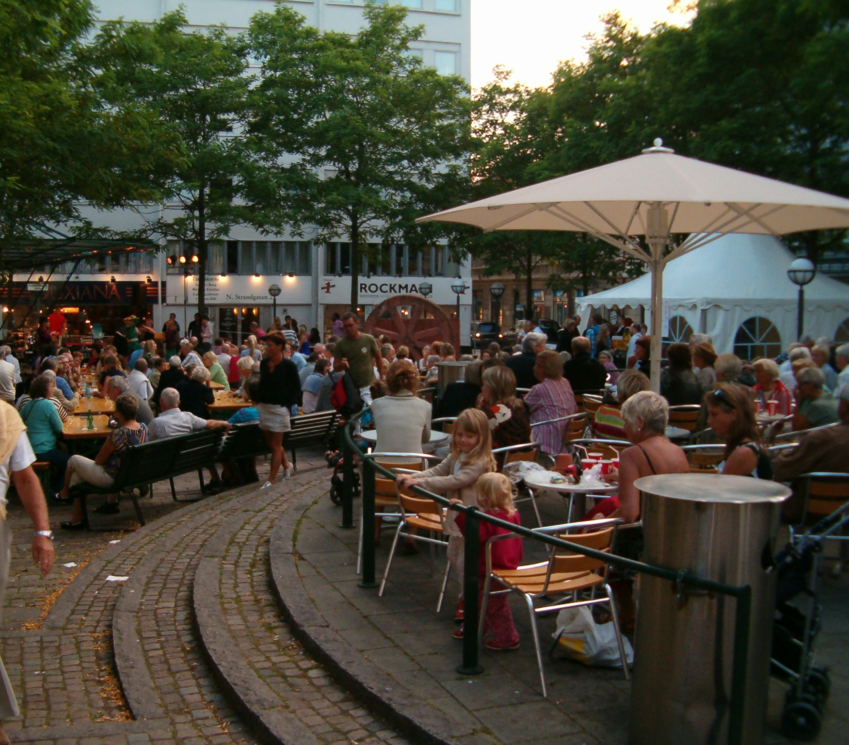 Outdoor concert at Konsul Olssons plats in Helsingborg, Sweden.